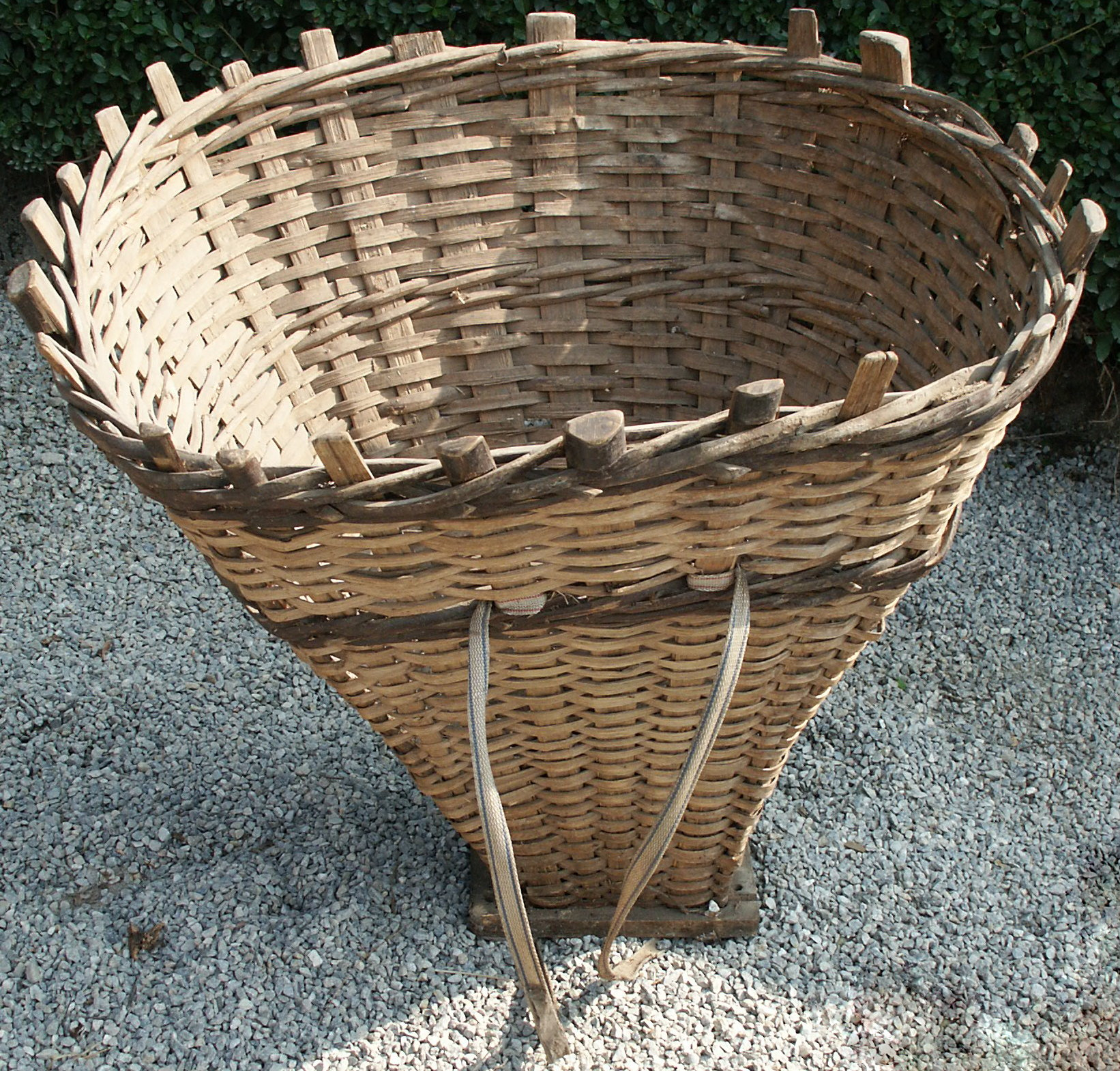 Una gerla Source: Photo by Frieda.